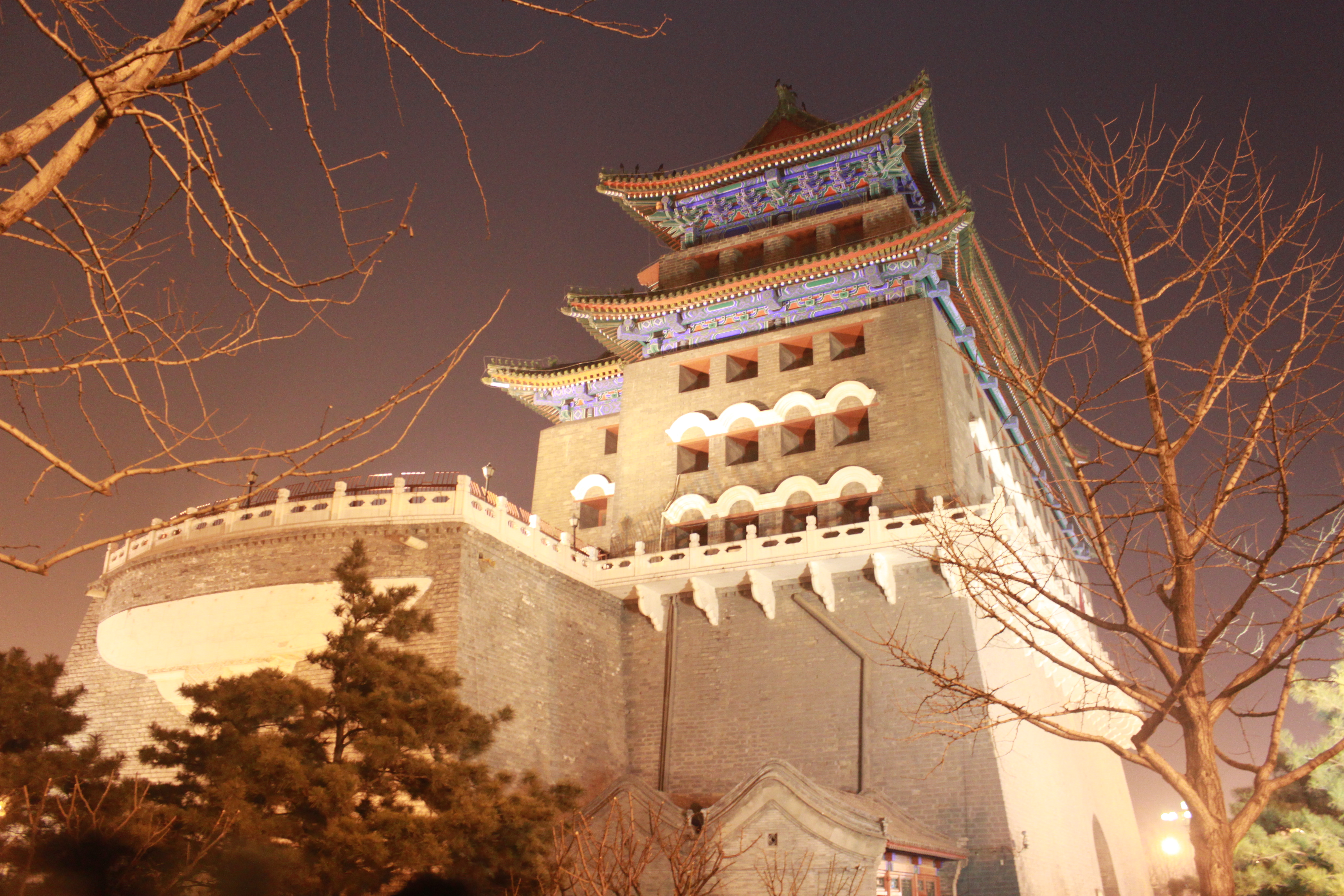 Preserved Beijing watchtower, near Tian An Men square.